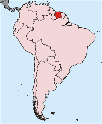 Map of South America, Suriname highlighted